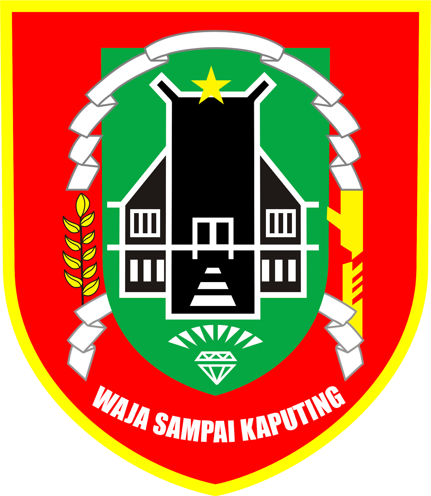 Coat of arms of the Indonesian province of South Kalimantan